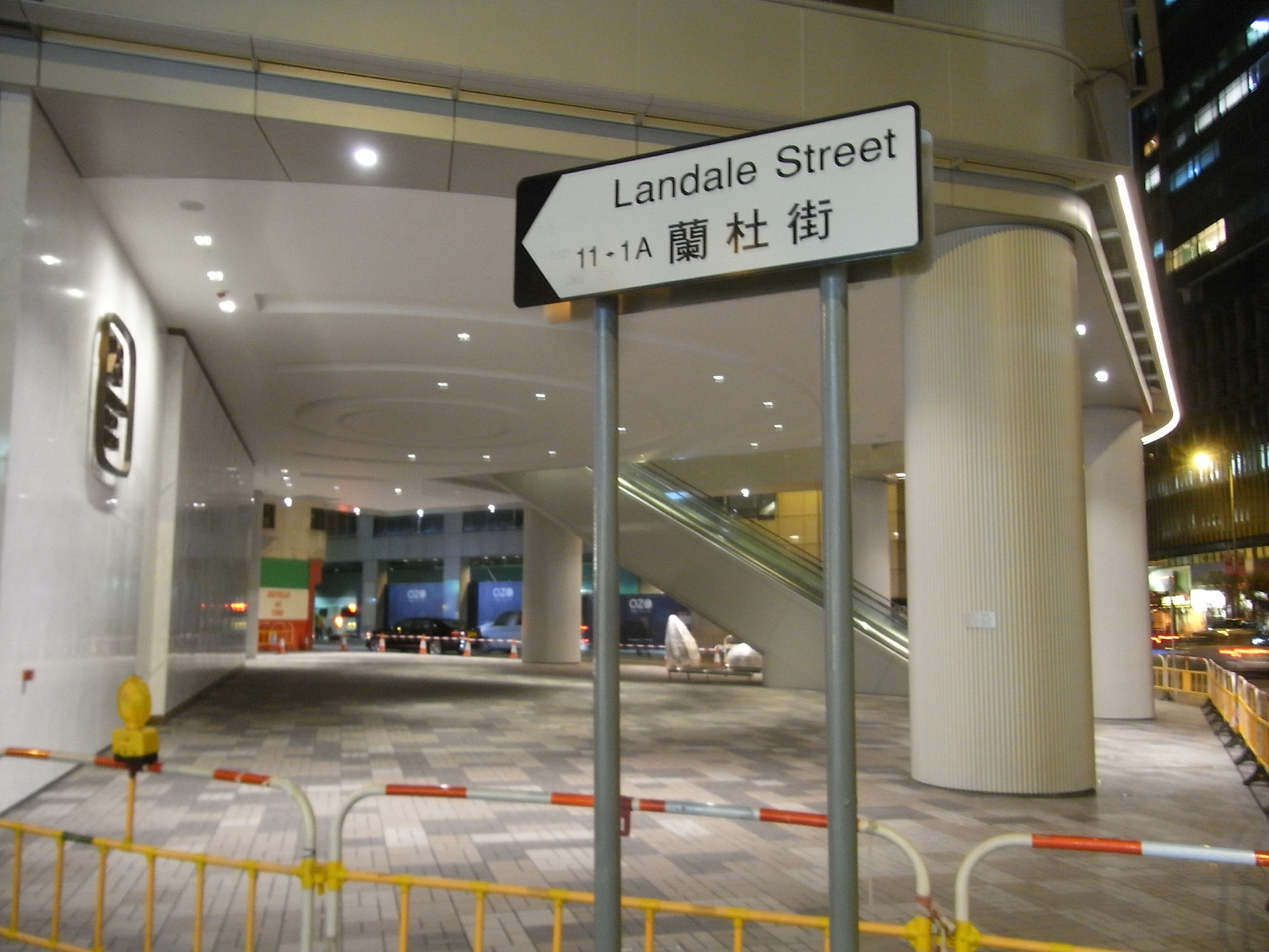 Construction site in No.28 Hennessy Road, Wan Chai, Hong Kong